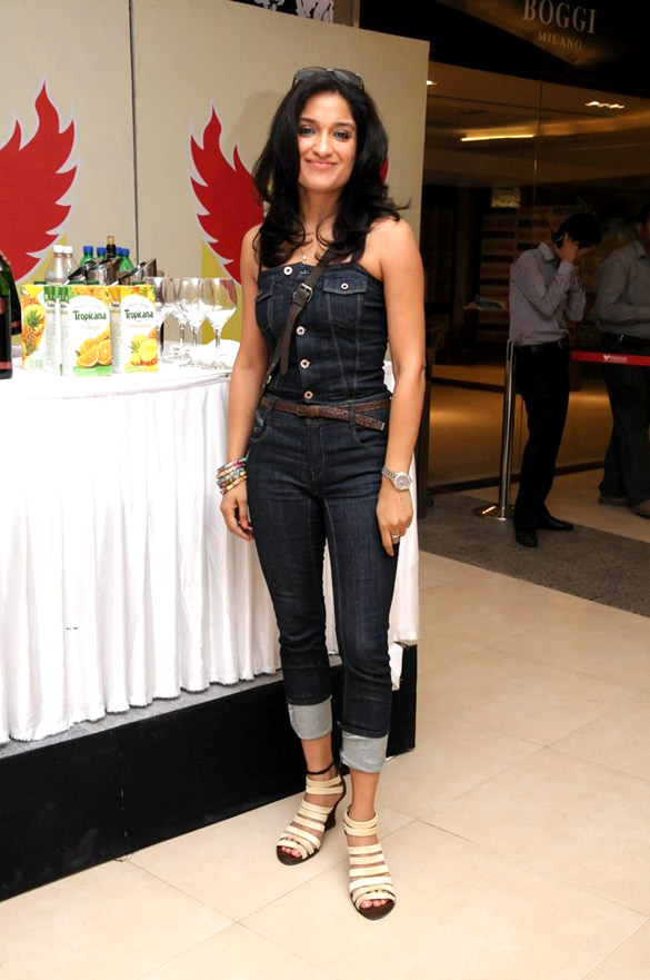 Sandhya Mridul at Phoenix Marketcity